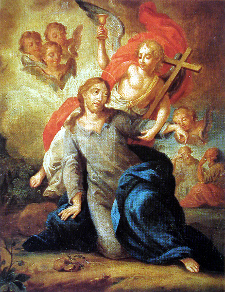 Christ in the Garden